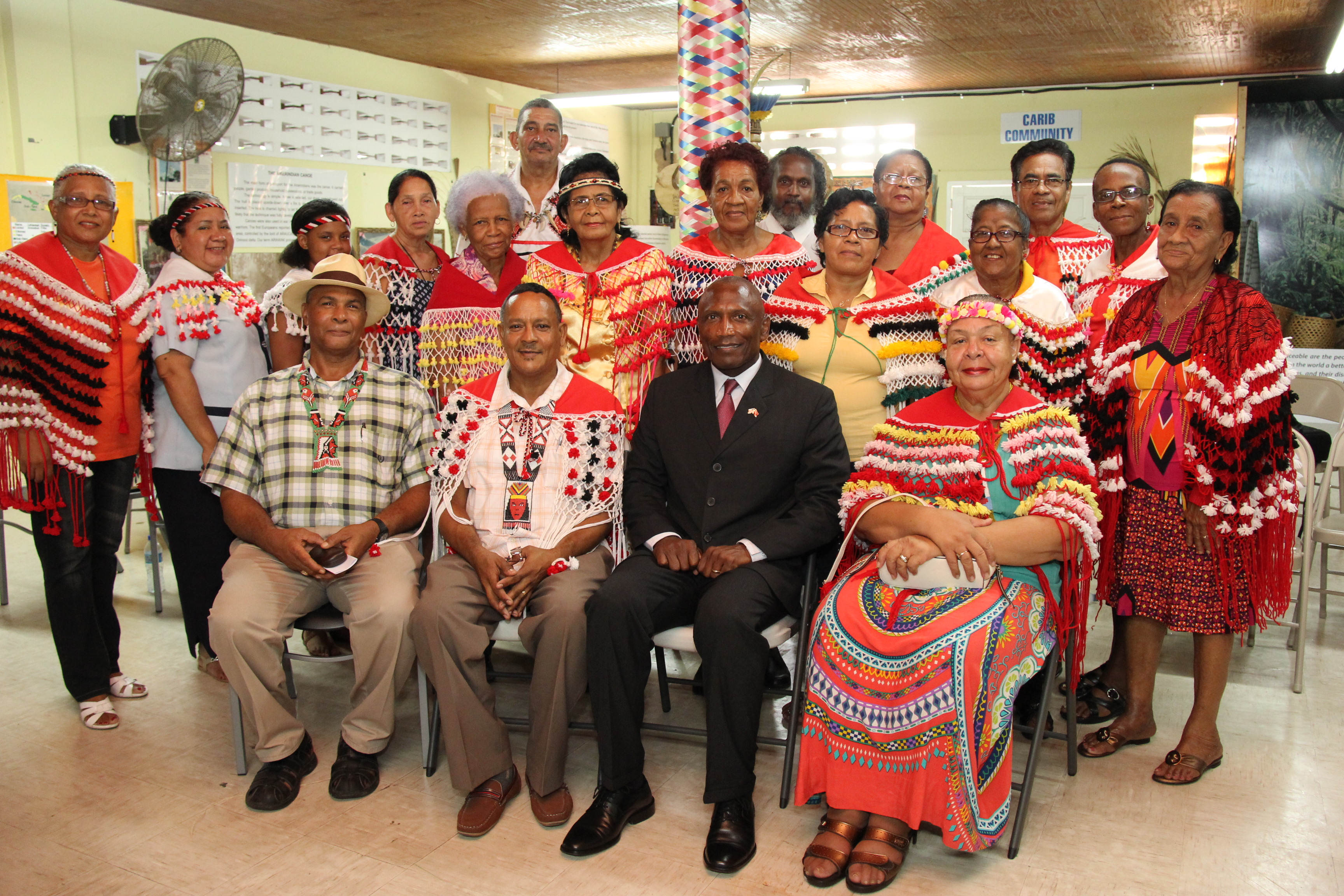 U.S. Ambassador to Trinidad and Tobago John L. Estrada shown with leaders, elders and members of the Santa Rosa First Peoples Community Arima. Seated in the front row (from right to left) - Carib Queen Jennifer Cassar, U.S. Ambassador John L. Estrada, Santa Rosa President and Chief Ricardo Bharath Hernandez, and shaman Cristo Adonis.